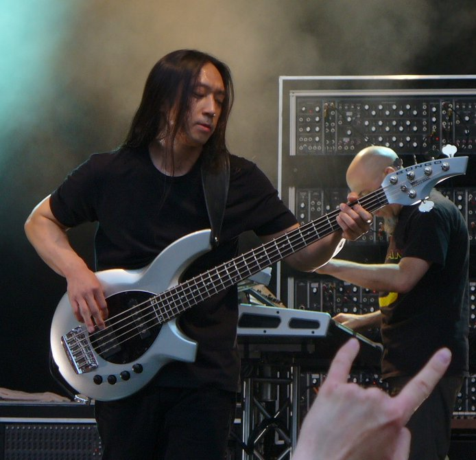 John Myung in Concert with Dream Theater